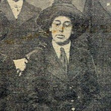 1916 march reported in 1916 newspaper. People are 1 Florence Gertrude de Fonblanque, 2 White 3 Stephenson 4 Richardson 5 Byham 6 Bennett 7 Nannie Brown (Agnes)